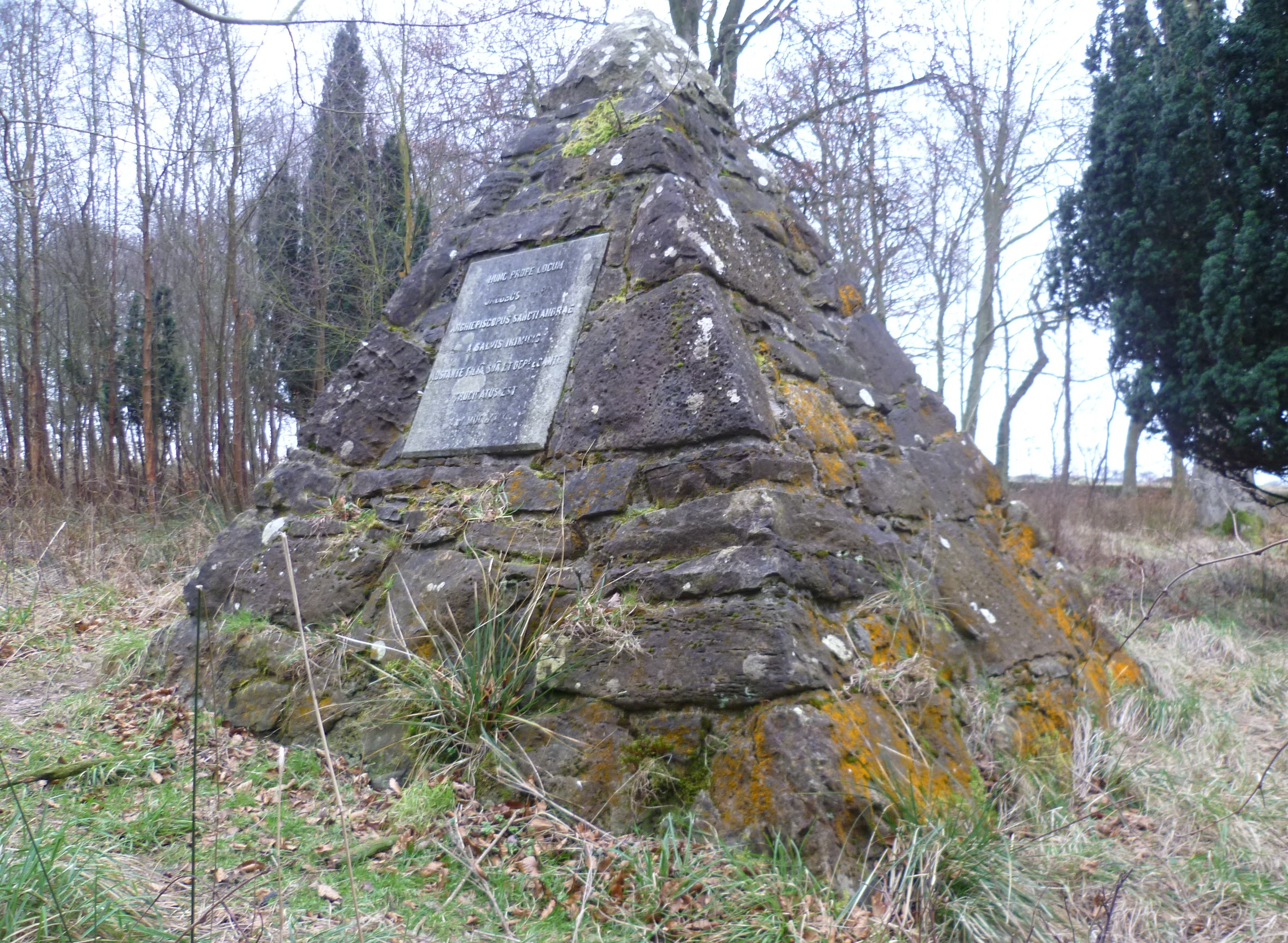 Archbishop Sharp Memorial, Magus Muir, near Strathkinness, Scotland. It was erected in 1877, about half a mile south from where the murder took place.